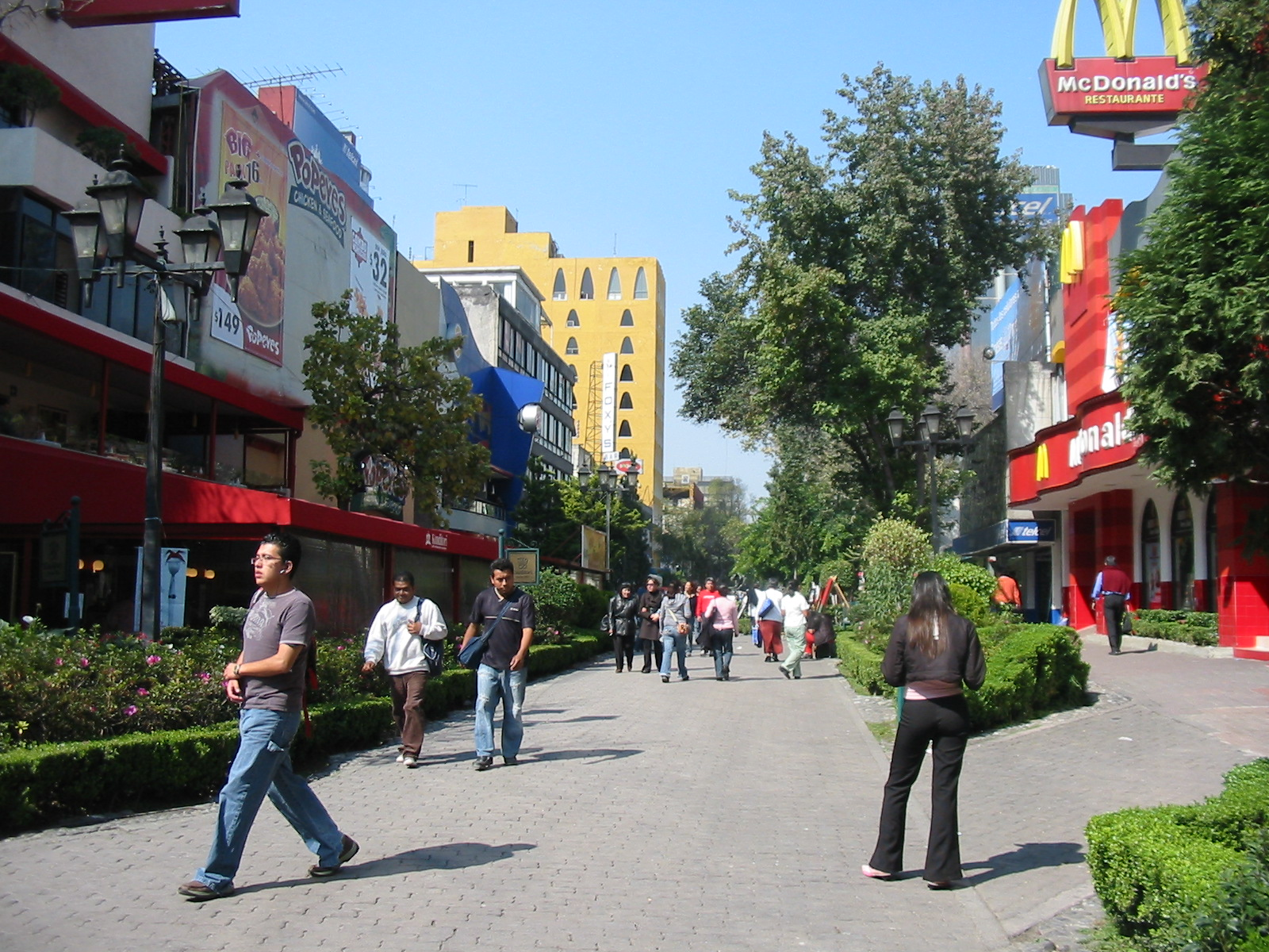 View of Genova Street, a pedestrian passage often hosting artwork for sale.